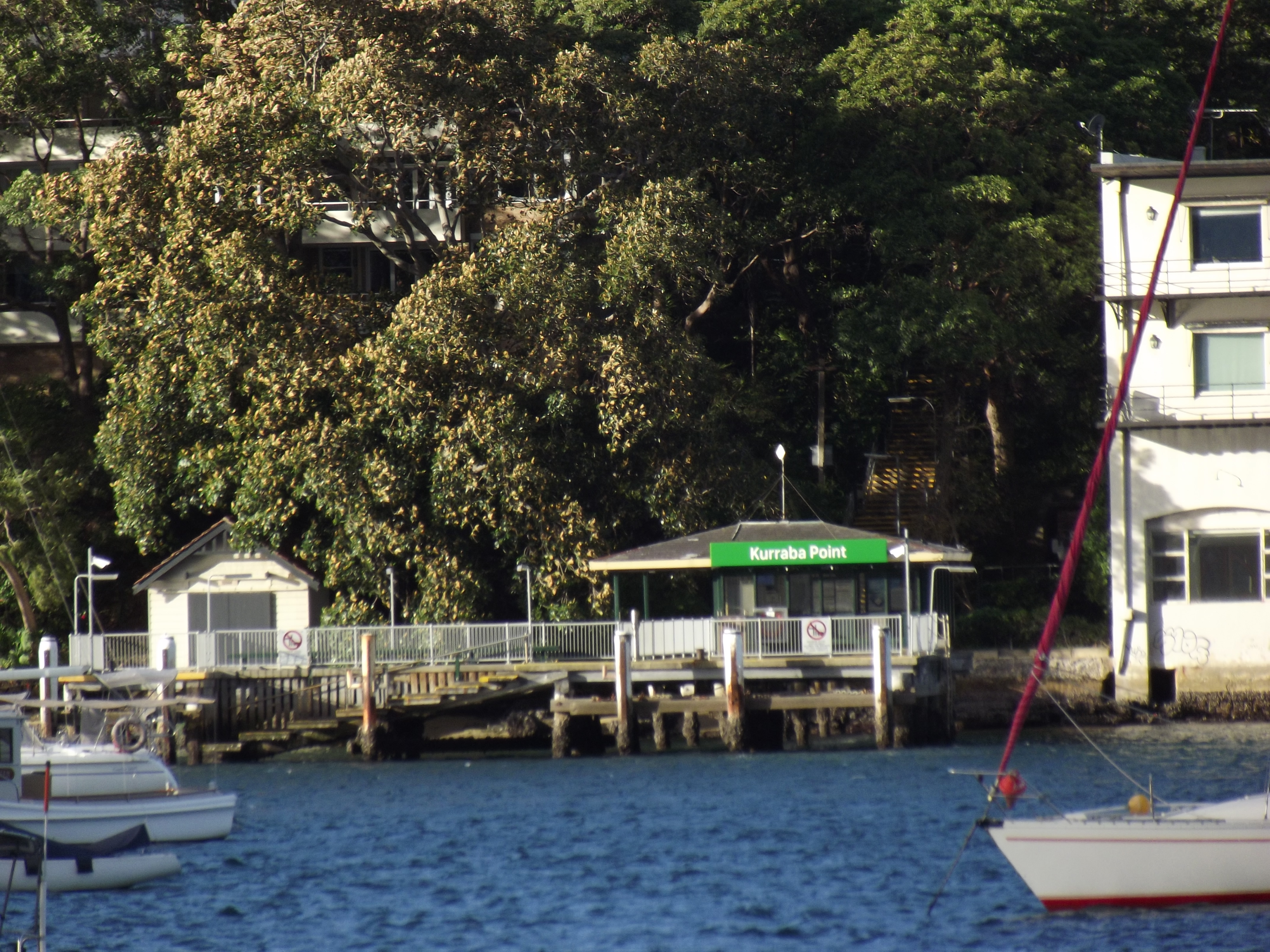 Kurraba Point ferry wharf photographed in June 2018 from Kesterton Park